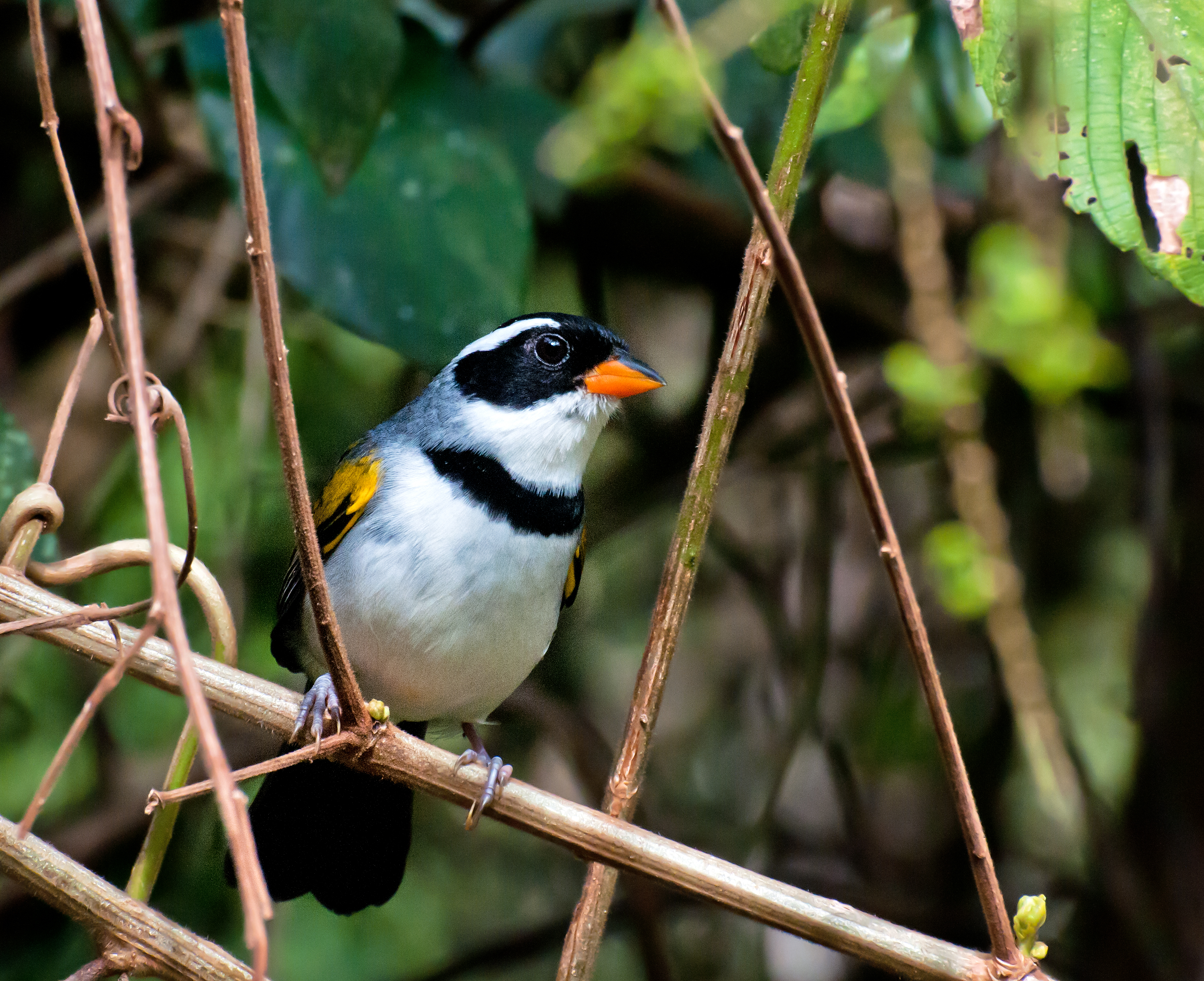 A Saffron-billed Sparrow in Piraju, São Paulo, Brazil.